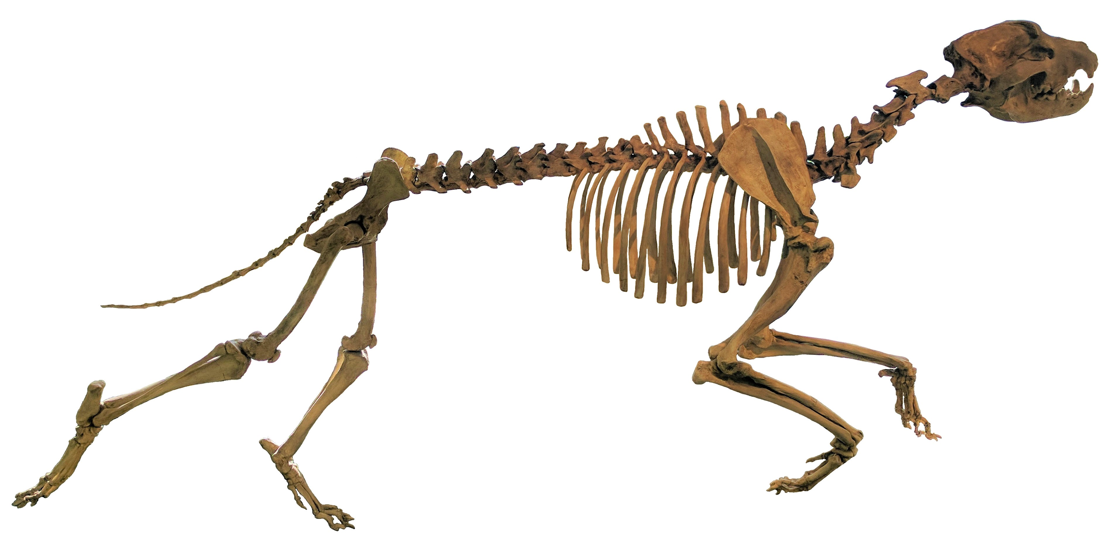 Natural History Museum Los Angeles